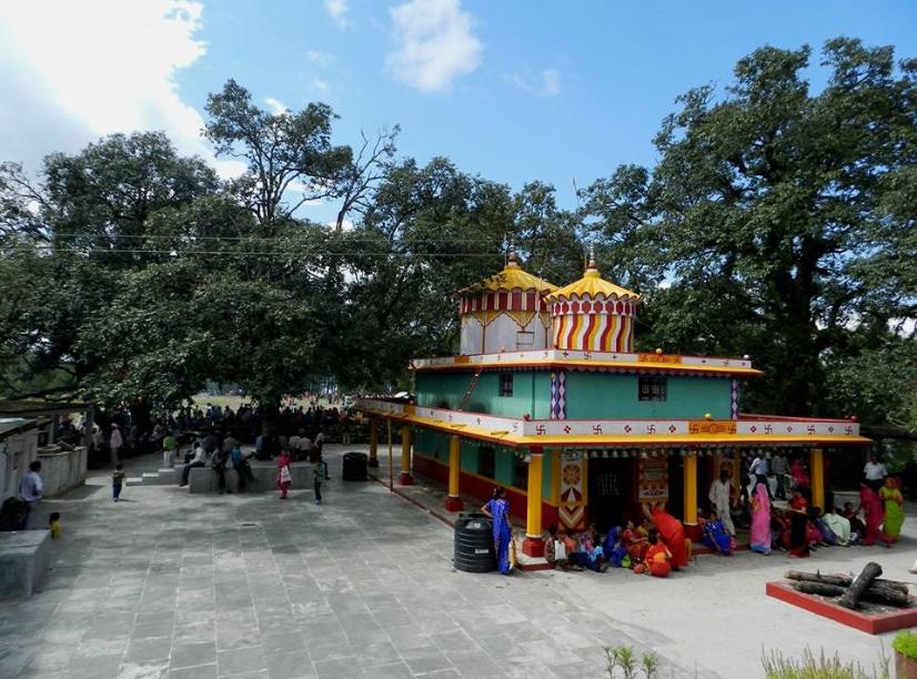 Dhauli Nag Temple, located at Vijaypur, Bageshwar, Uttarakhand, India